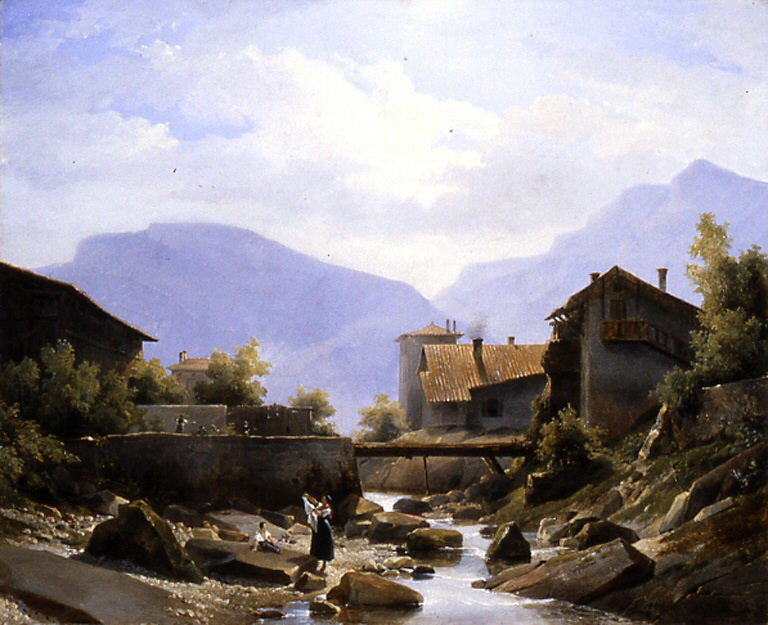 Leprince, a member of a noted family of artists, exhibited his landscapes at the Paris Salons from 1822 to 1844. He belonged to a generation of neoclassical artists whose works were characterized by their luminous atmosphere and their picturesque settings. Leprince was said to have painted directly from nature.